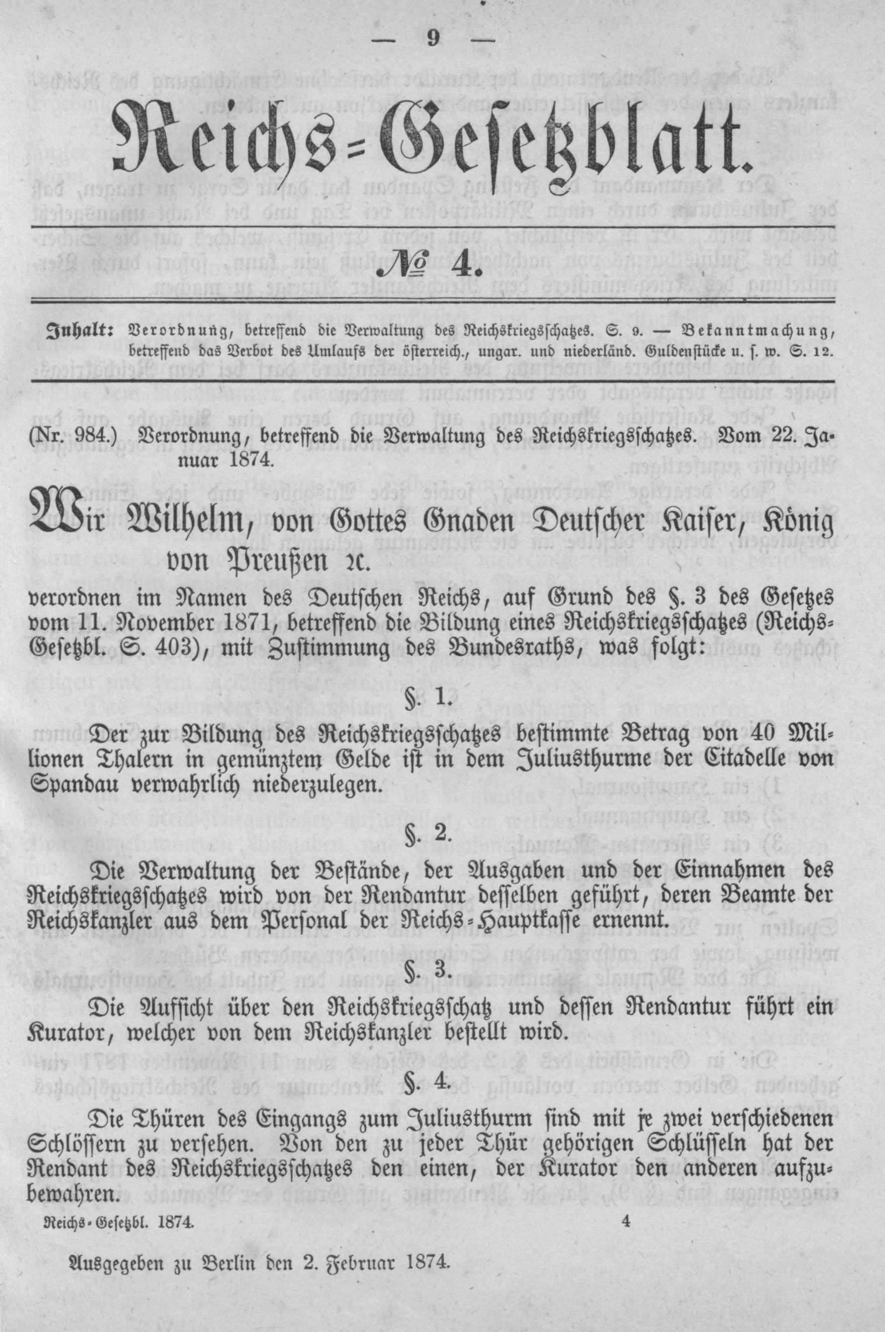 Scan from the Imperial Law Gazette of Germany, 1874